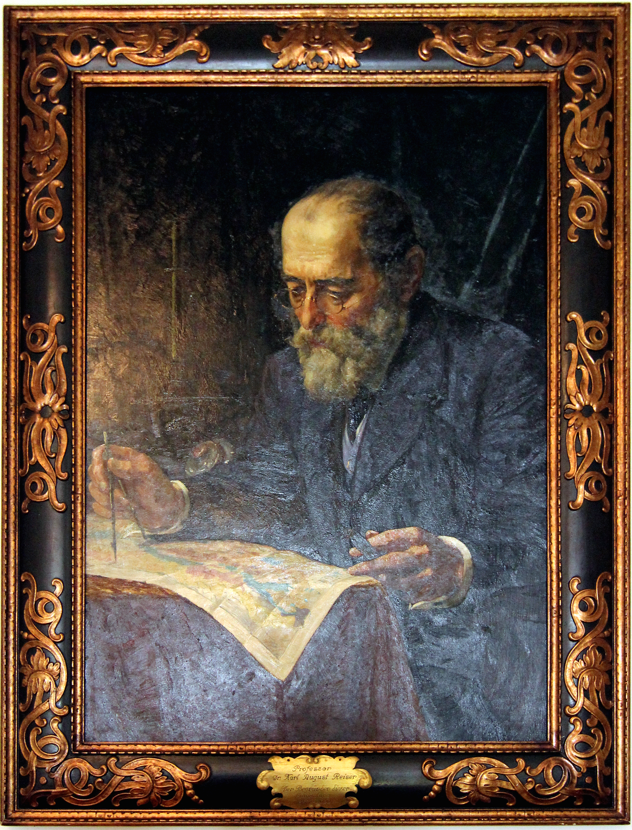 Karl August Reiser